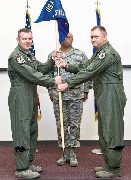 U.S. Air Force photo by Airman 1st Class Matthew Lancaster U.S. Air Force Col. Robert Garland, USAF Weapons School commandant, activates the 315th Weapons Squadron while Lt. Col. Jason Seyer, 315th WS commander, assumes command, March 2, 2012 at Nellis Air Force Base, Nev. The 315 WS’s mission is to conduct training for missile combat crews, missile operations staff officers and Department of Defense personnel.